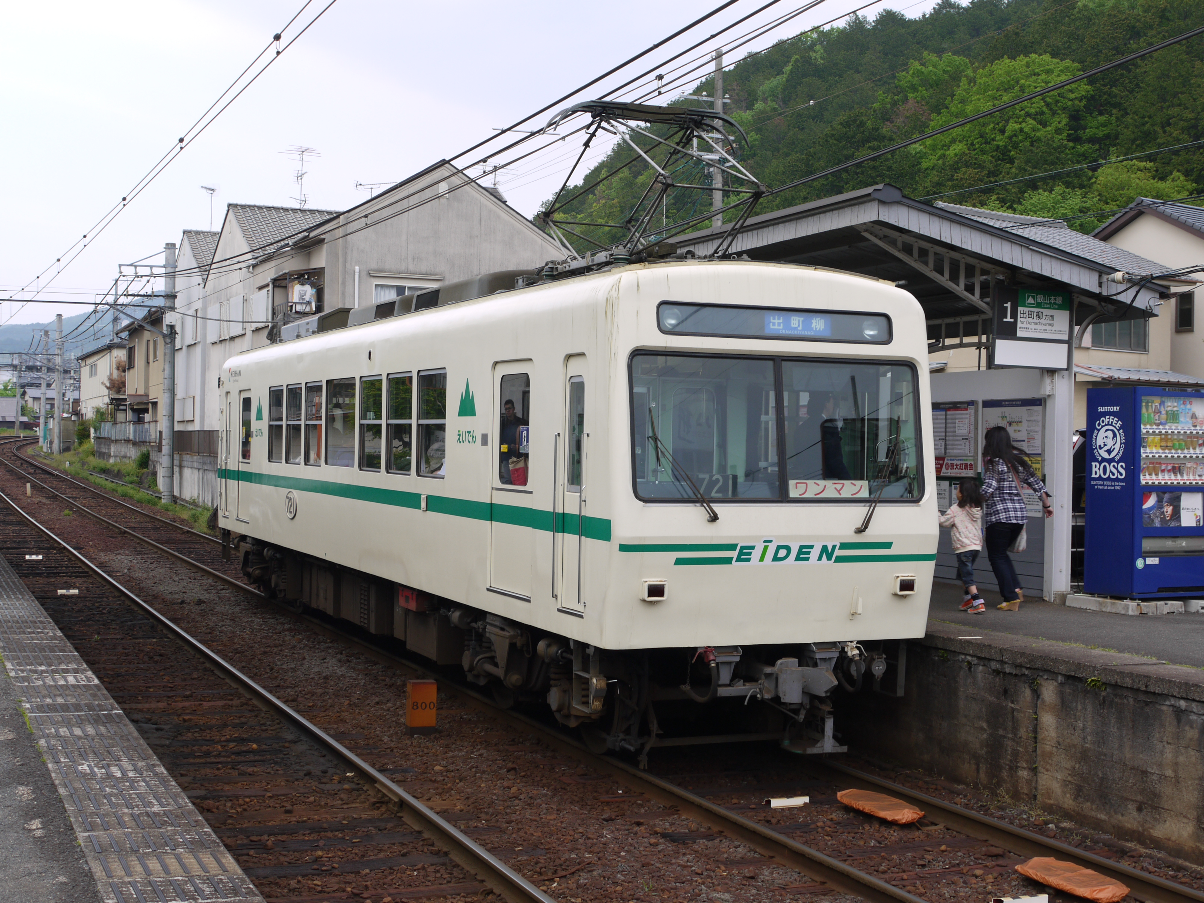 Eizan railway Deo 721 at Takaragaike station